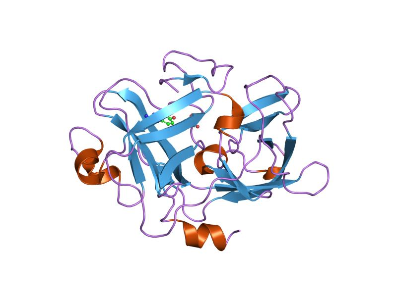 Cartoon representation of the molecular structure of protein registered with 1fv9 code.